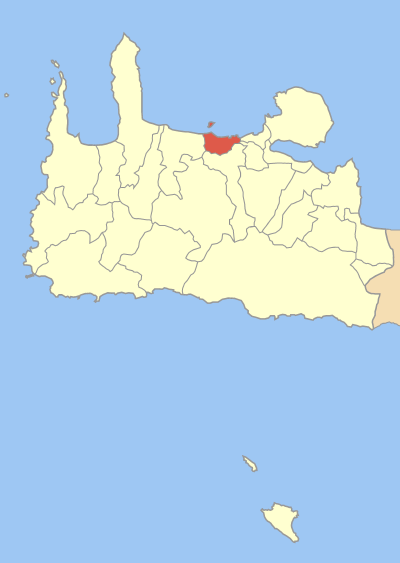 Locator map of Nea Kydonia municipality (Δήμος Νέας Κυδωνίας) in Chania prefecture (Νομός Χανίων) in Greece.